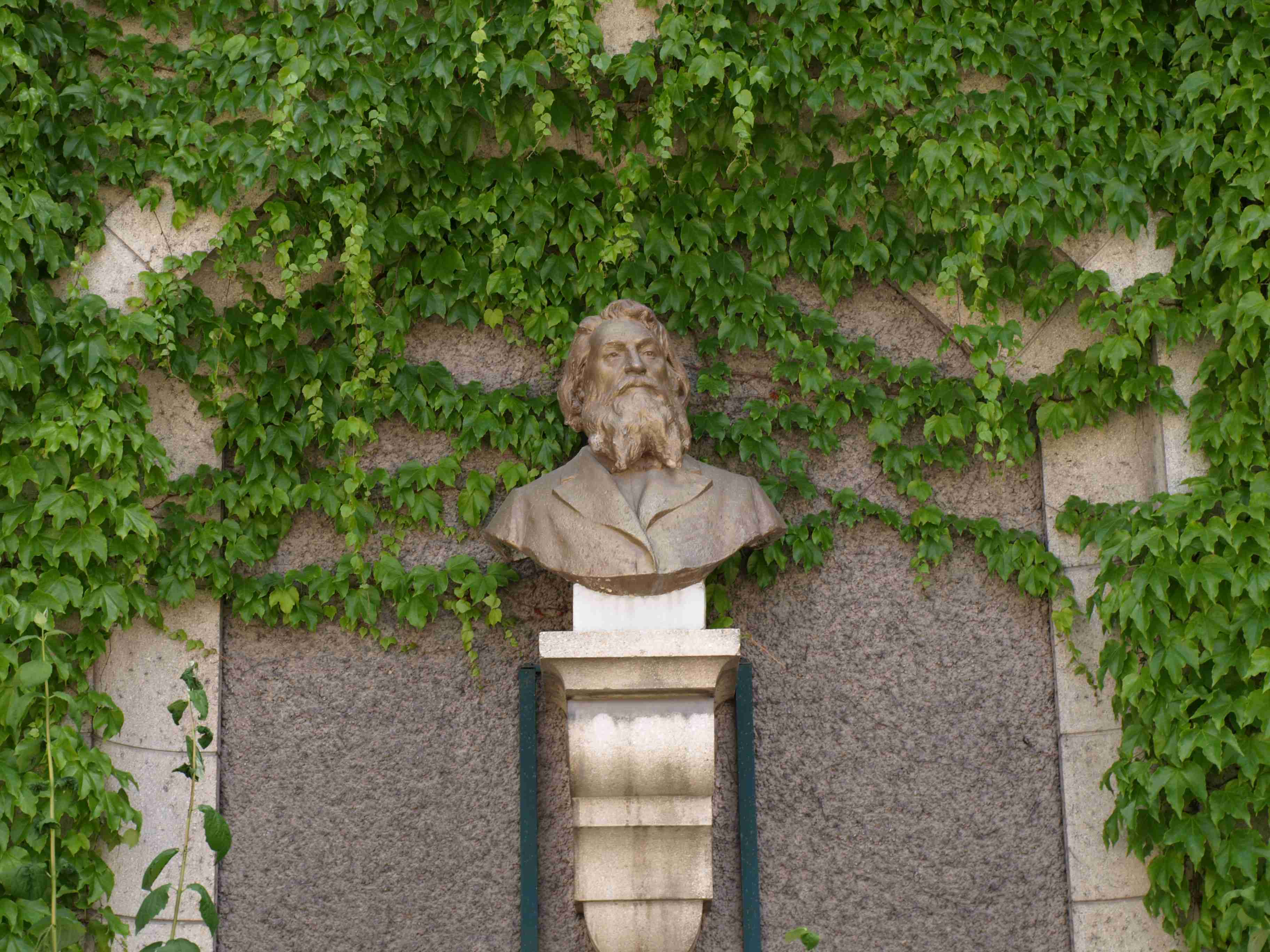 Paul Gasq, Monument to Paul Cabet, 1933, detail, Nuits-Saint-George, , Belfry, Côte d'Or.